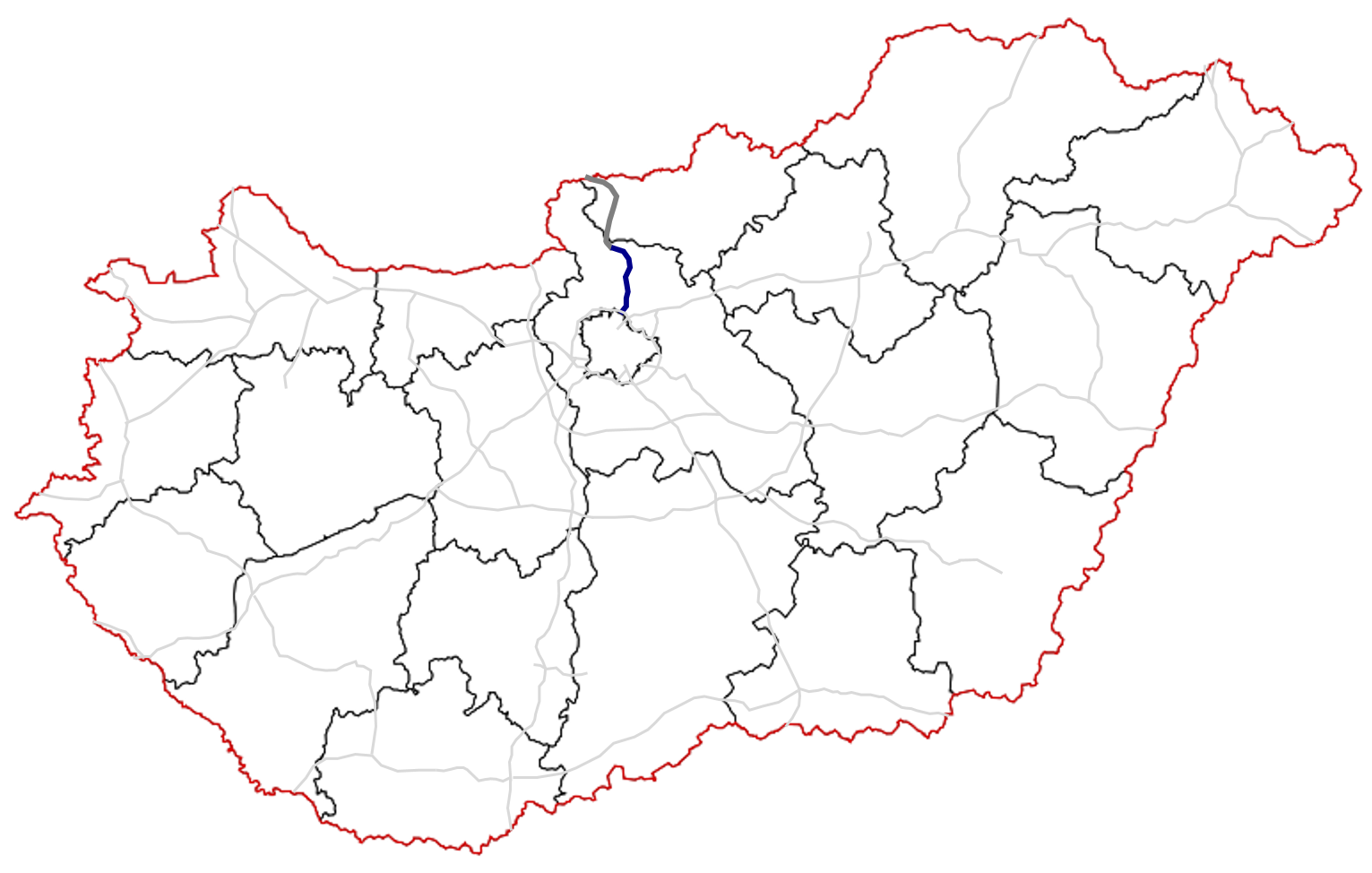 Traject the M2 Motorway, Hungary (Blue: in use, Light blue: under construction, Green: planned)